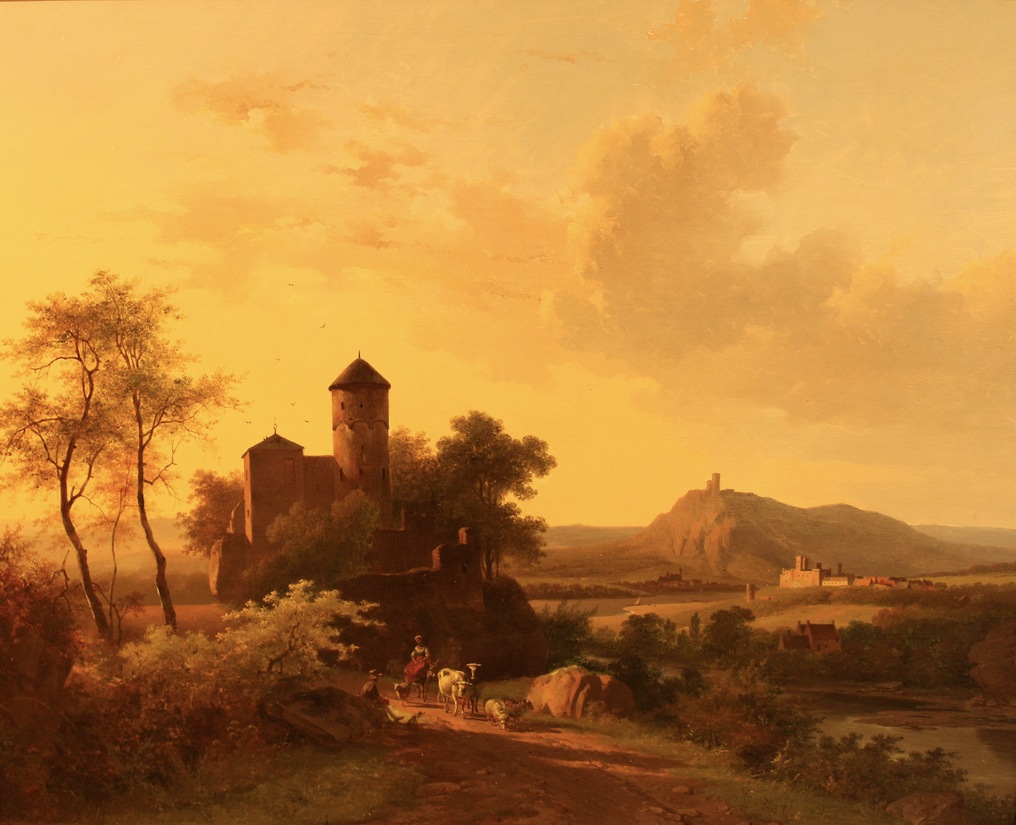 Photo of Morning in Thuringia by Barend Cornelis Koekkoek from Widener University Art Museum Alfred O. Deshong Collection